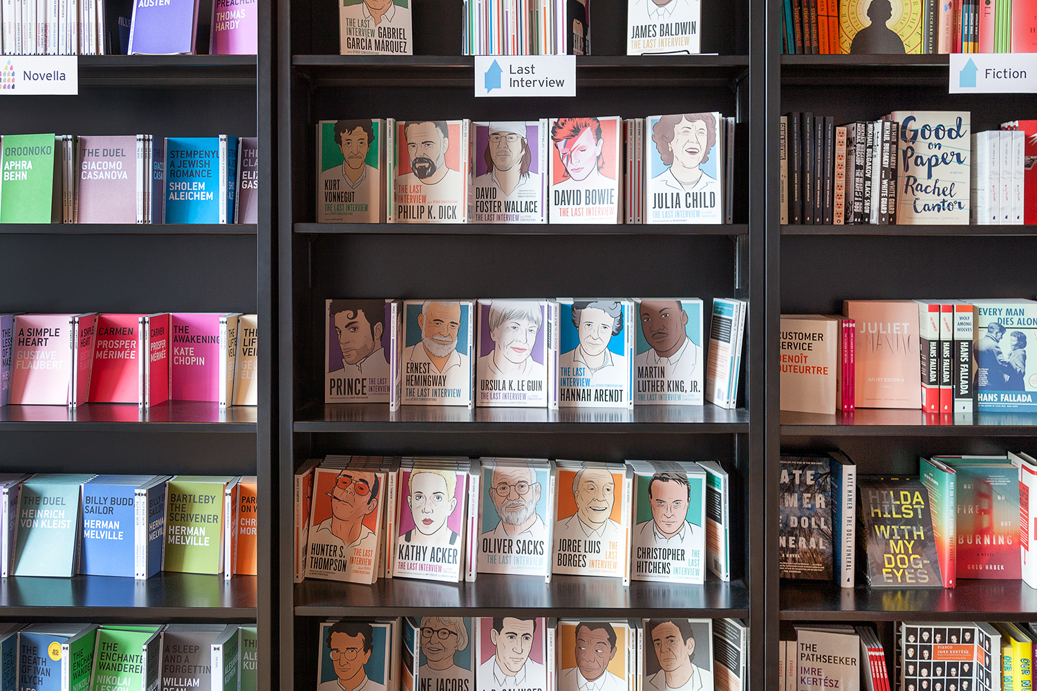 Melville House Publishing and Bookstore (Photo gallery of DUMBO, Brooklyn)